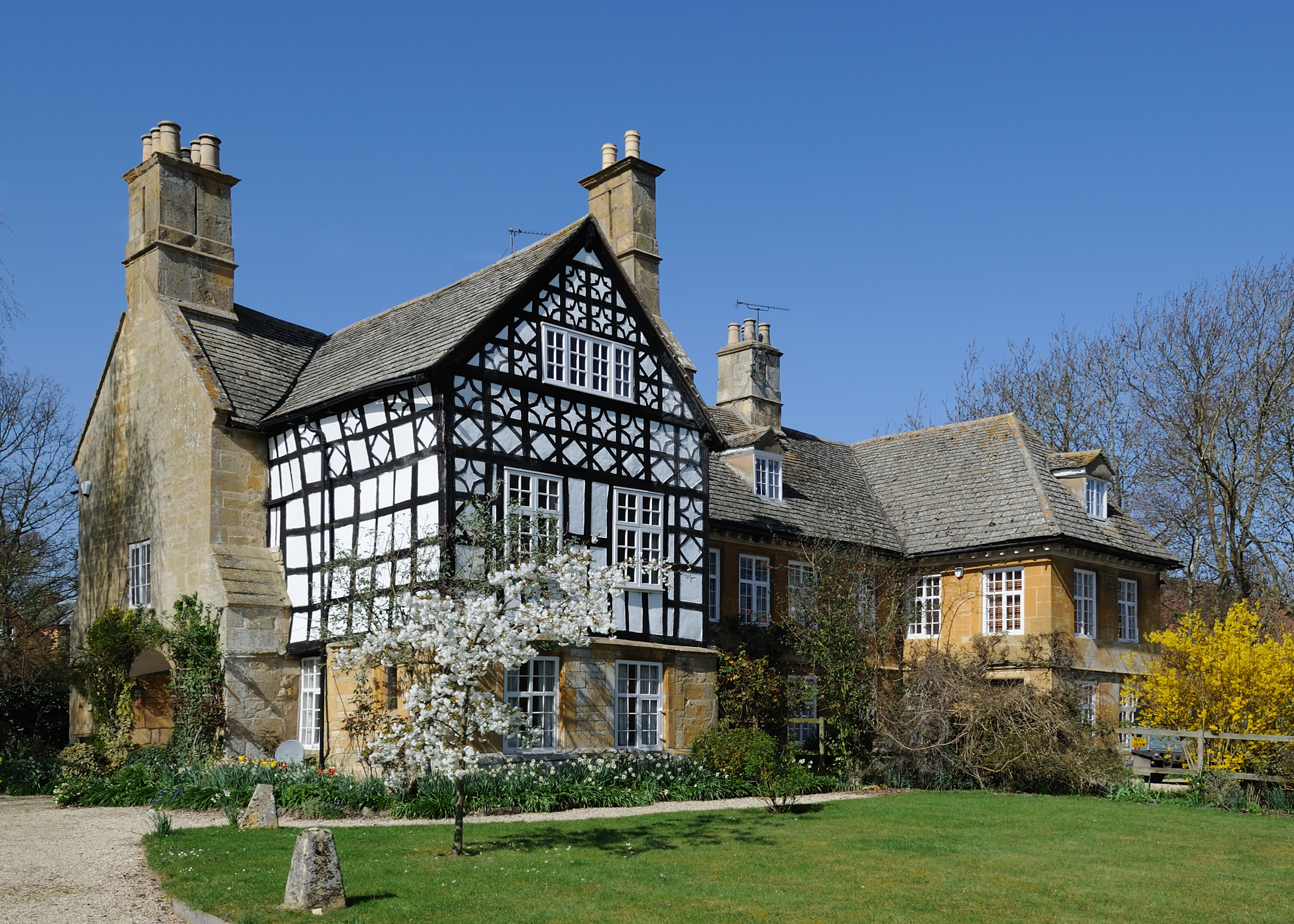 The Old Rectory in Dumbleton village (Cotswolds)